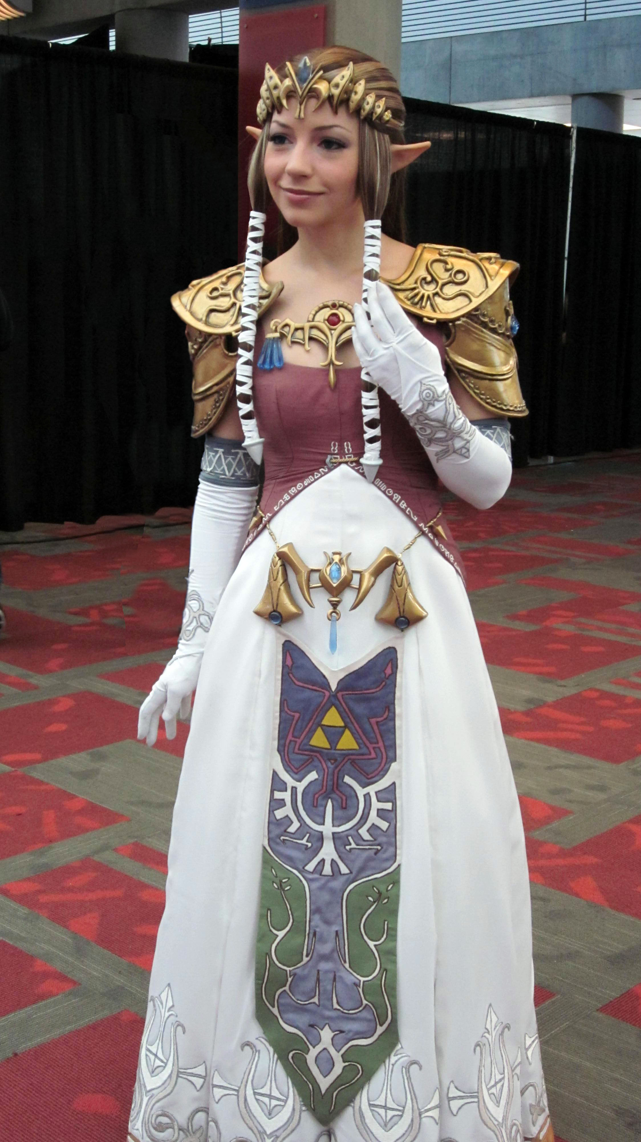 A cosplayer portraying Zelda from The Legend of Zelda at FanimeCon 2010 in San Jose, California.